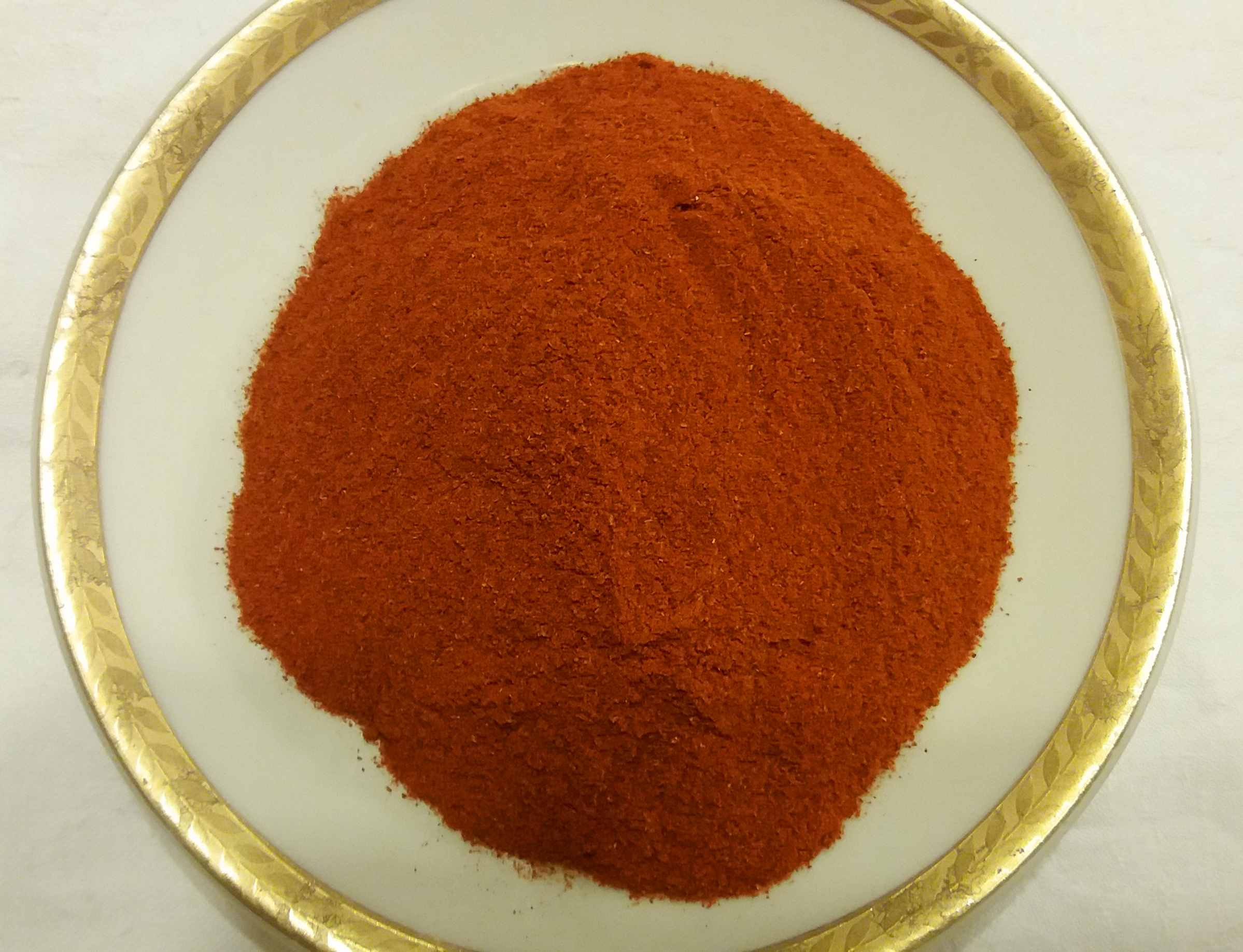 Paprika powder or chilli powder